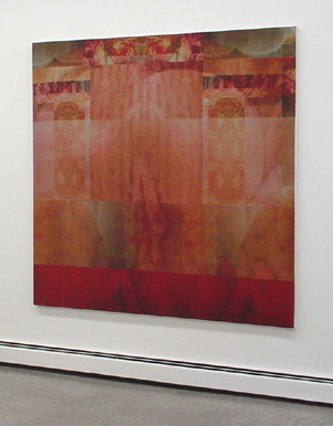 Photograph of painting "birth Of the viractual" by Joseph Nechvatal, 2002.